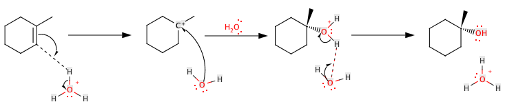 Chemical mechanism of Hydration Reaction